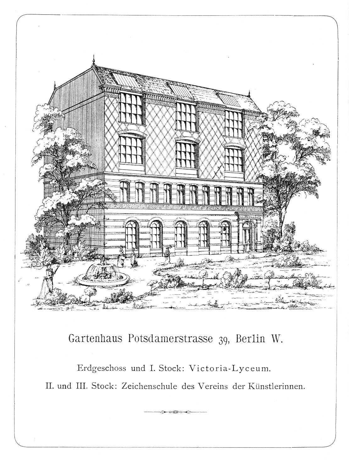 The Victoria Lyceum in Berlin - founded by Georgina Archer and continued by Alix von Cotta